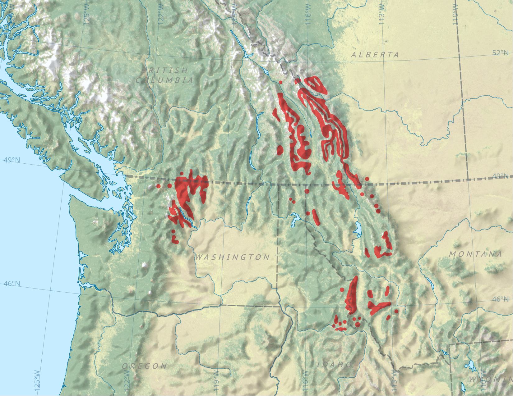 The range of Larix lyallii, in red, overlaid on a Natural Earth basemap.